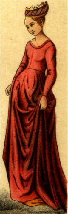 Lady from Flanders (15th century)